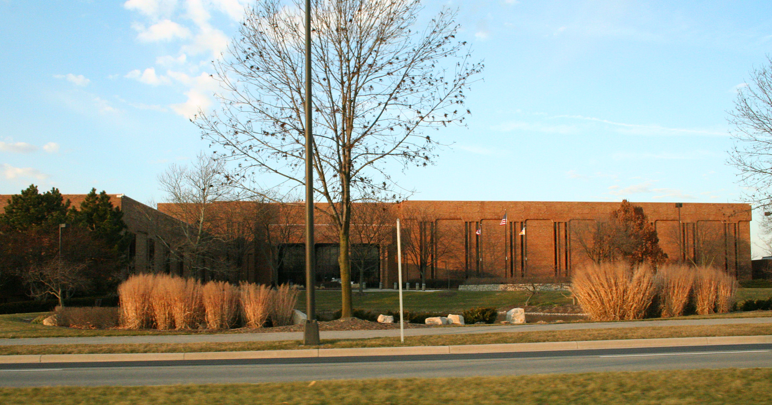 Wendy's corporate headquarters near Columbus in Dublin, Ohio. Photo shot by Derek Jensen (Tysto), 2006-02-01